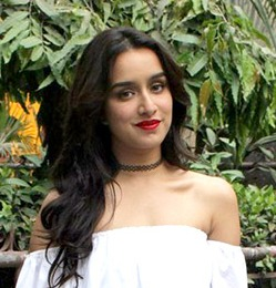 Shraddha Kapoor promoting Baaghi in 2016